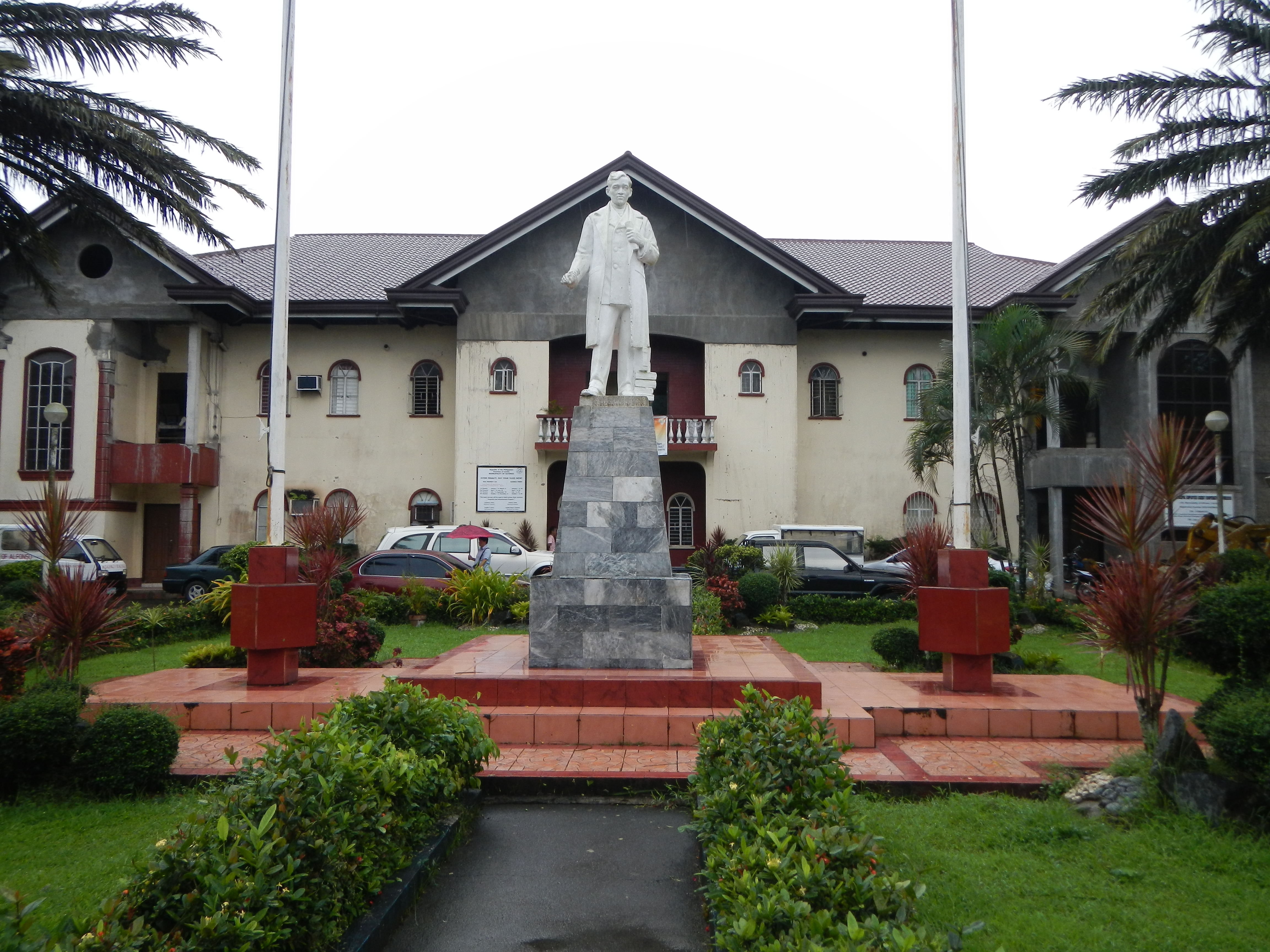 Upload Wizard -- (general description of landmarkds, town, church, bad weather, going to dark, sunset conditions) - of -Alfonso Municipal Hall[1] Coordinates: 14°8'16"N 120°51'18"E - Alfonso, Cavite [2] (a first class municipality in the province of Cavite, Philippines, 2010 Philippine census, population of 48,567 people in an area of 70.0 square kilometers politically subdivided into 32 barangays.[3] Alfonso [4] Coordinates: 14°8'32"N 120°51'27"E [5] [6] Matagbak Coordinates: 14°7'24"N 120°50'2"E) - Centro, Town Proper, downtown, Alfonso Covered Court, Basketball court grandstand.